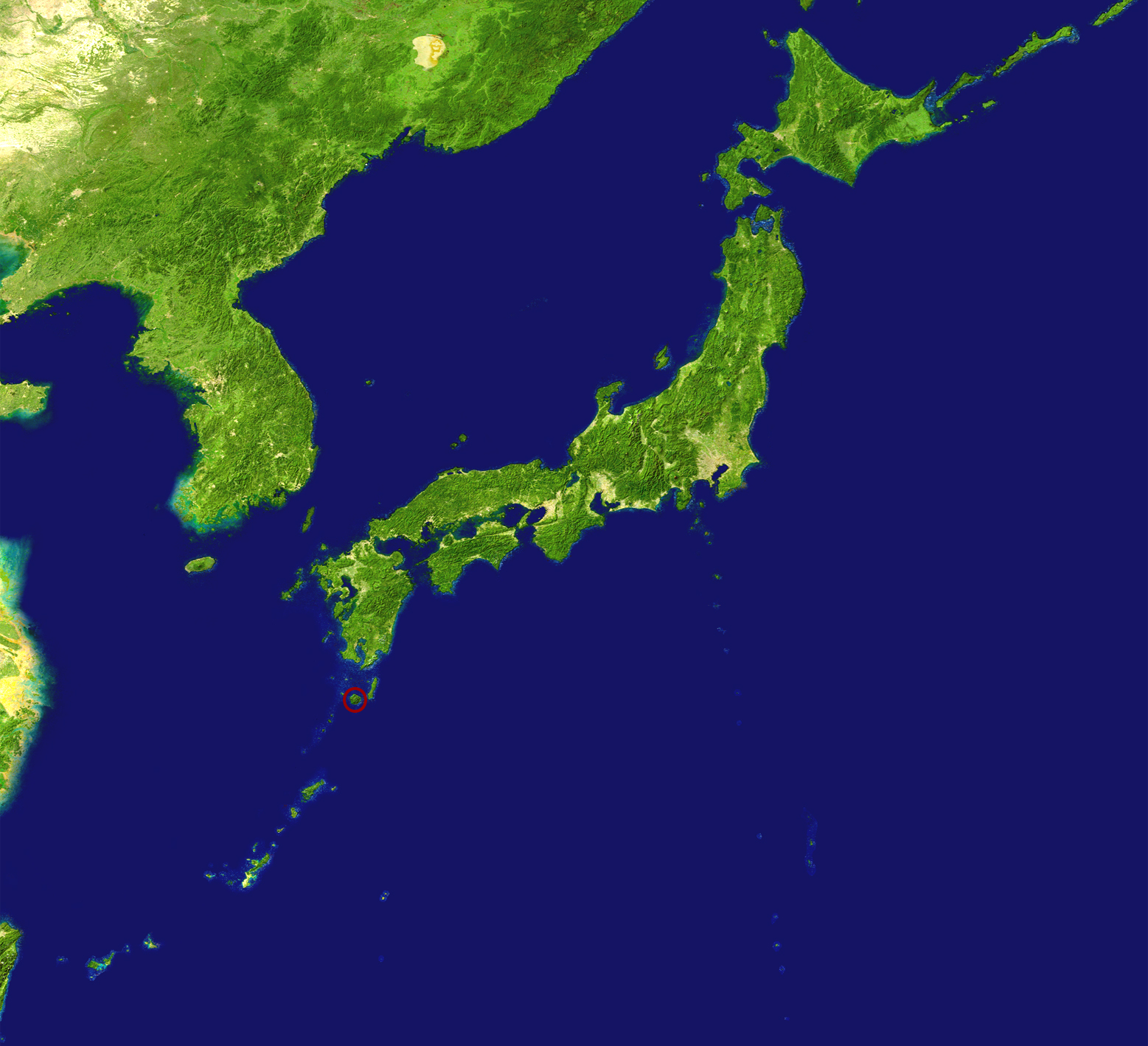 Satellite view of Japan with Yakushima marked.